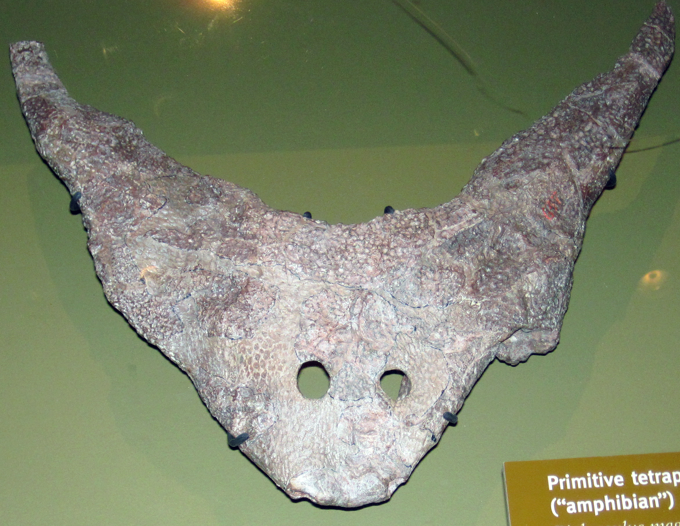 Diplocaulus magnicornis Cope, 1882 skull from the Lower Permian of Baylor County, northern Texas, USA (“UC 637”, ex-University of Chicago, now housed at the Field Museum of Natural History, Chicago, Illinois, USA). This fossil amphibian is remarkable for its long, bony, posterolateral extensions of the skull. Diplocaulus has been interpreted as an entirely aquatic amphibian. The oddly-shaped skull was apparently used, when tilted, to help the creature surface rapidly while swimming. The skull shape also acts to prevent predators from consuming Diplocaulus whole. In the 1960s, a remarkable concentration of hundreds of Diplocaulus remains was collected from a single locality in the Permian Vale Formation of Texas, USA, representing a drought-concentration of animals in an ancient, dried-out river channel (see Dalquest & Mamay, 1963 - Journal of Geology 71: 641-644). Classification: Animalia, Chordata, Vertebrata, Amphibia, Lepospondyli, Nectridea, Keraterpetontidae